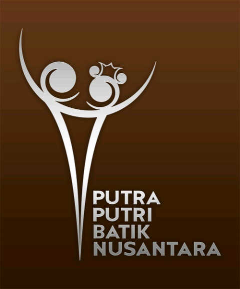 Logo Putra Putri Batik Nusantara